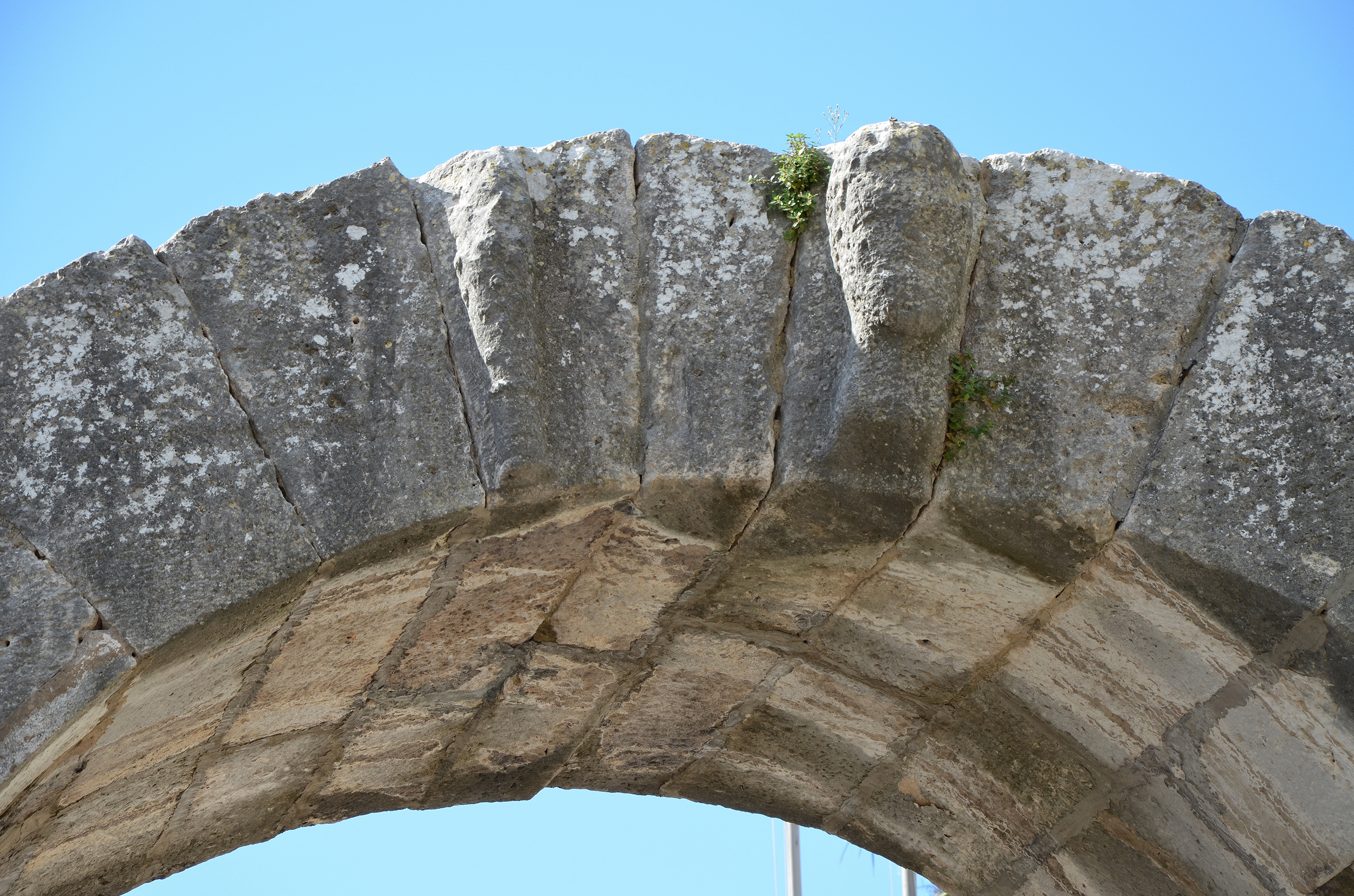 Gate of Hercules, head of Hercules and his club, Colonia Pietas Iulia Pola Pollentia Herculanea, Histria